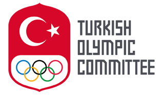 Turkish Olympic Committee